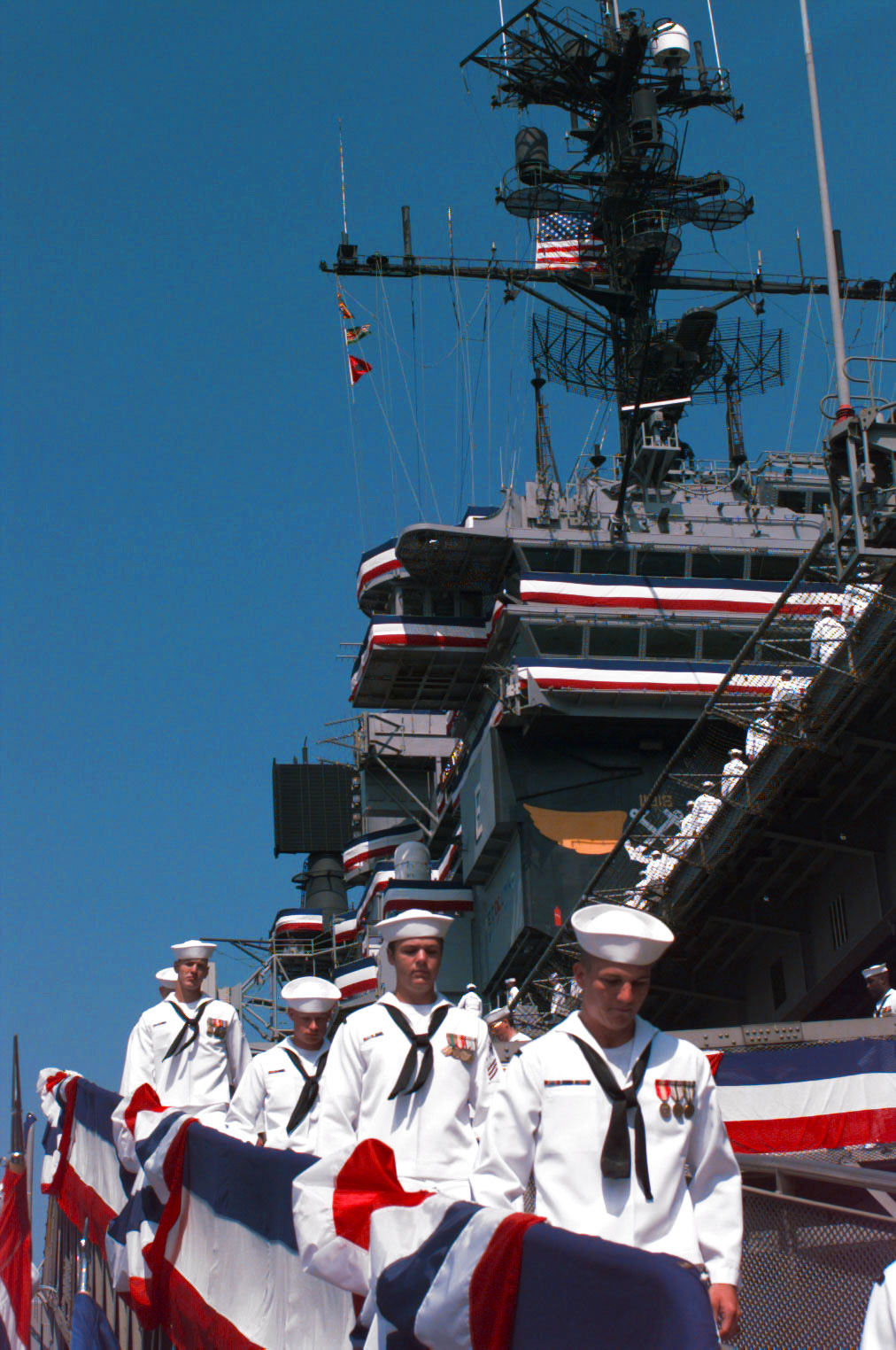 The crew of the aircraft carrier USS America (CV 66) marches down the gangway for the last time as their ship is decommissioned in ceremonies at the Norfolk Naval Shipyard in Portsmouth, Va., on August 9, 1996. America returned from its last deployment Feb. 24, where its squadrons flew 250 combat missions over the skies of Bosnia and Herzegovina. The Nation's Flagship and crew also distinguished themselves during Operation Desert Storm. America is the only carrier to have launched strikes against Iraqi targets from both sides of the Arabian Peninsula: Red Sea and Persian Gulf. The aircraft carrier was commissioned Jan. 23, 1965, at Norfolk Naval Shipyard. During its second deployment, America assisted with the rescue and medical treatment of crew members from the technical research ship USS Liberty (AGTR 5) after it was attacked by Israeli torpedo boats and jet fighters, June 8, 1967. America also completed three deployments to "Station"off the coast of Vietnam, where it spent as many as 112 consecutive days on station.